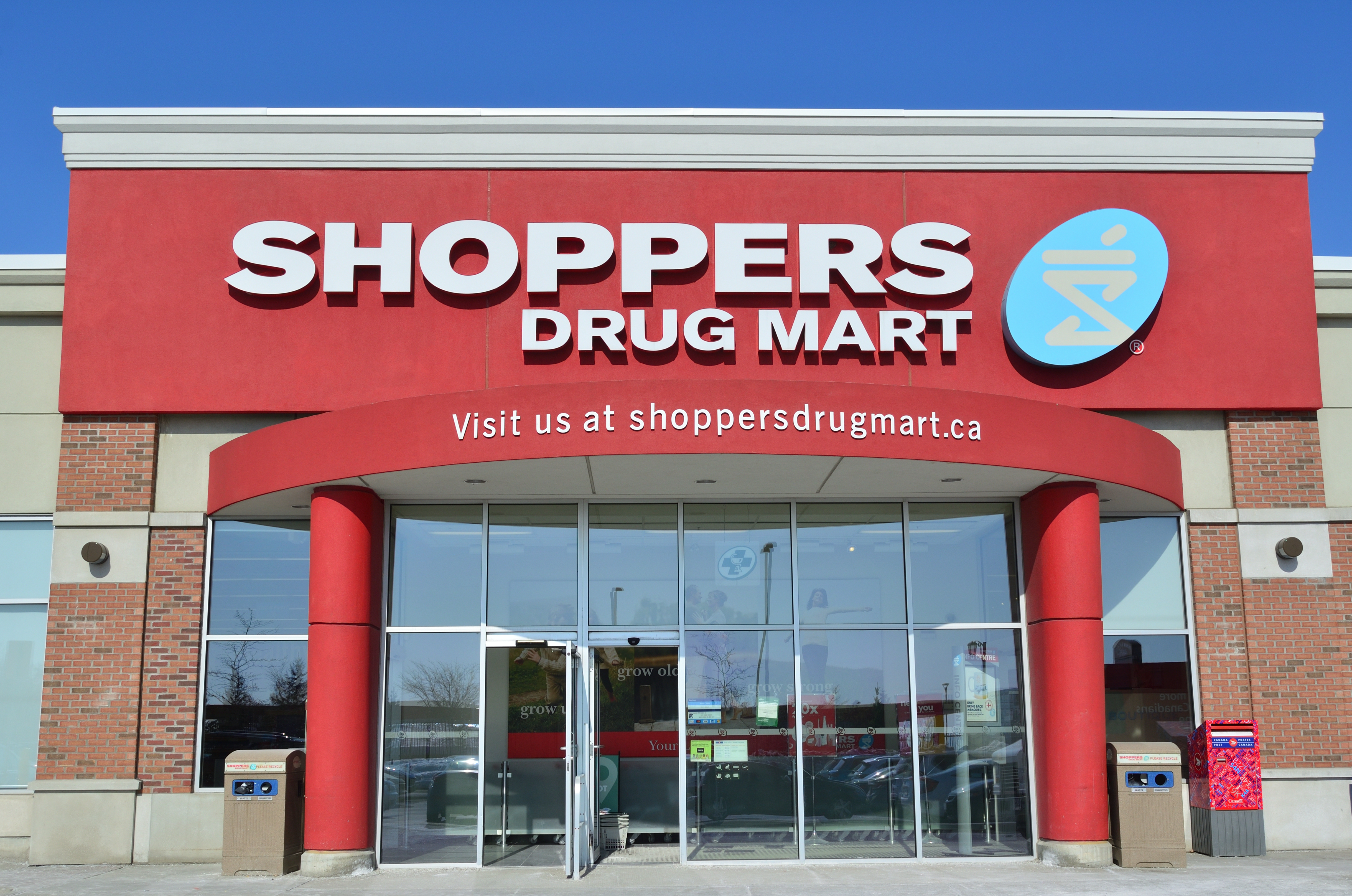 Shoppers Drug Mart - Address: 118 Tower Hill Rd Building C1, Richmond Hill, ON L4E 0K6